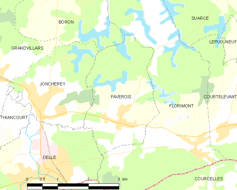 Map of French municipality Faverois